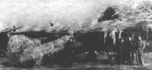 Polish fighter P-11 camouflaged in battle airfield, September 1939